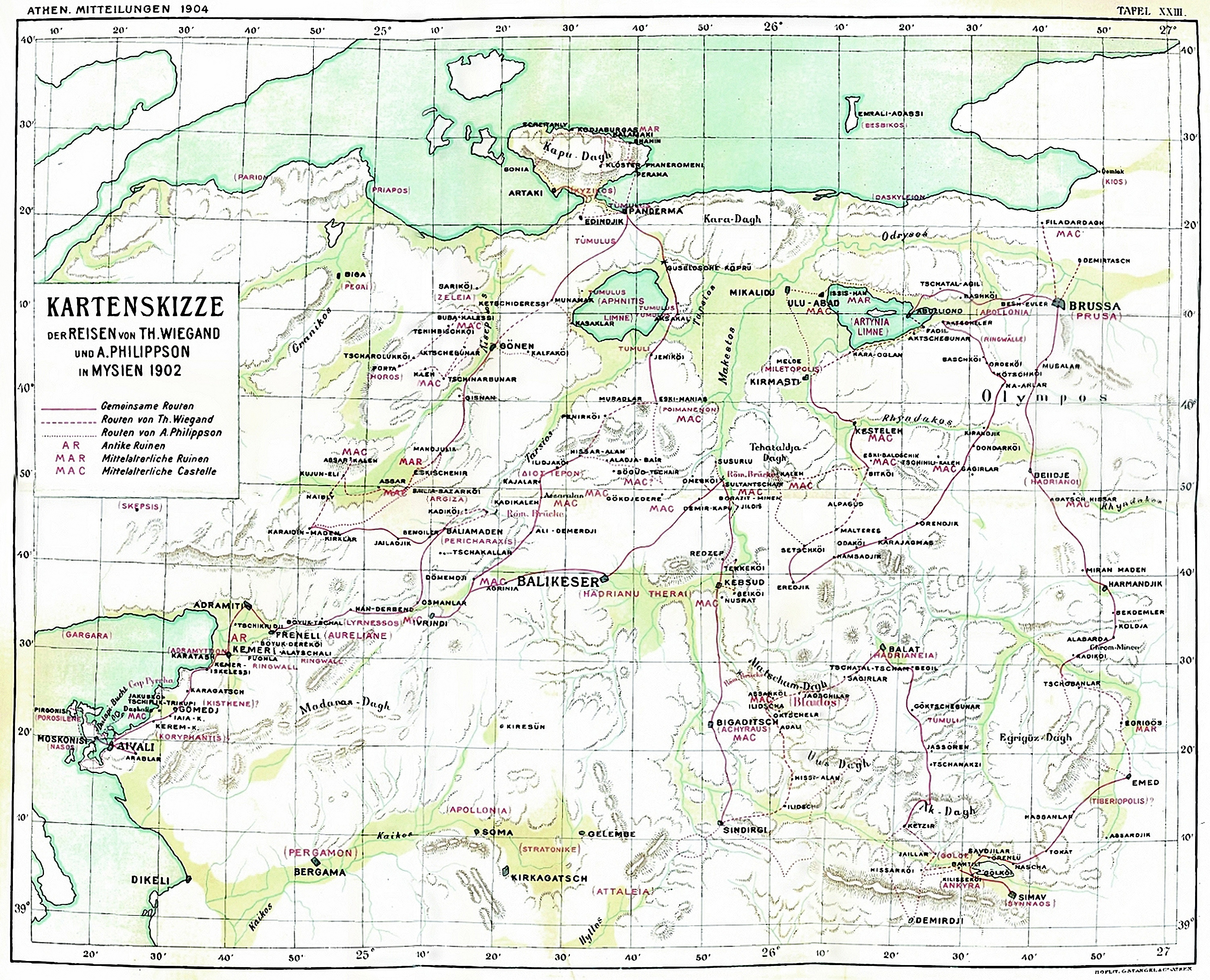 Map of Mysia drawn by Theodor Wiegand in 1902.